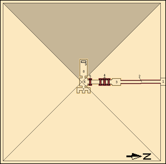 Layout of Djedkare Isesi's substructure. In order: 1) North chapel; 2) Descending corridor; 3) Vestibule; 4) Granite portculli; 5) Granite portcullis; 6) Antechamber; 7) Serdab; 8) Burial chamber; 9) Sarcophagus. Based on Lehner, Mark (2008) The Complete Pyramids New York: Thames & Hudson. ISBN 978-0-500-28547-3 p. 153 for 1-4, 6-9; Miroslav, Verner (2001) The Pyramids: The Mystery, Culture and Science of Egypt's Great Monuments New York: Grove Press. ISBN 978-0-8021-1703-8 p.326 for 5.